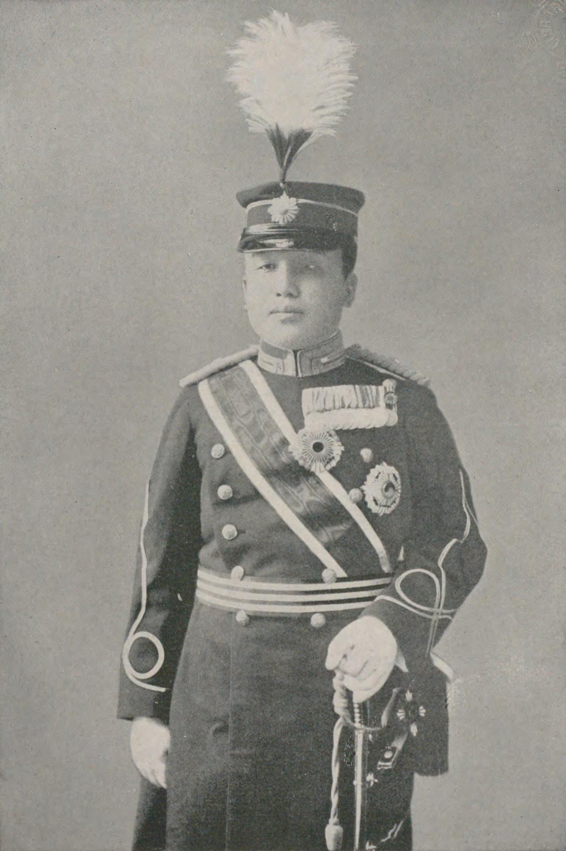 Crown Prince of Korea Yi Un, 1918